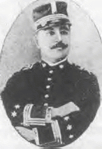 1898 image of Capt. Angel Rivero Mendez, He retired from the military after the US invaded Puerto Rico